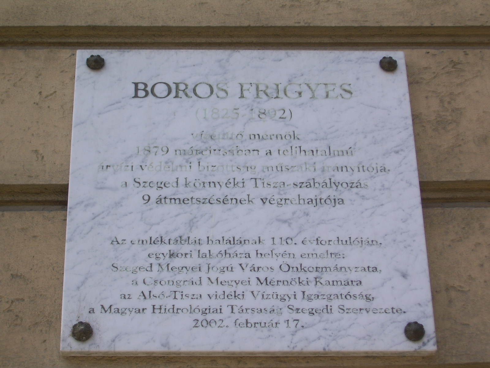 Plaque of Frigyes Boros on the facade of Tóth-palota in Szeged